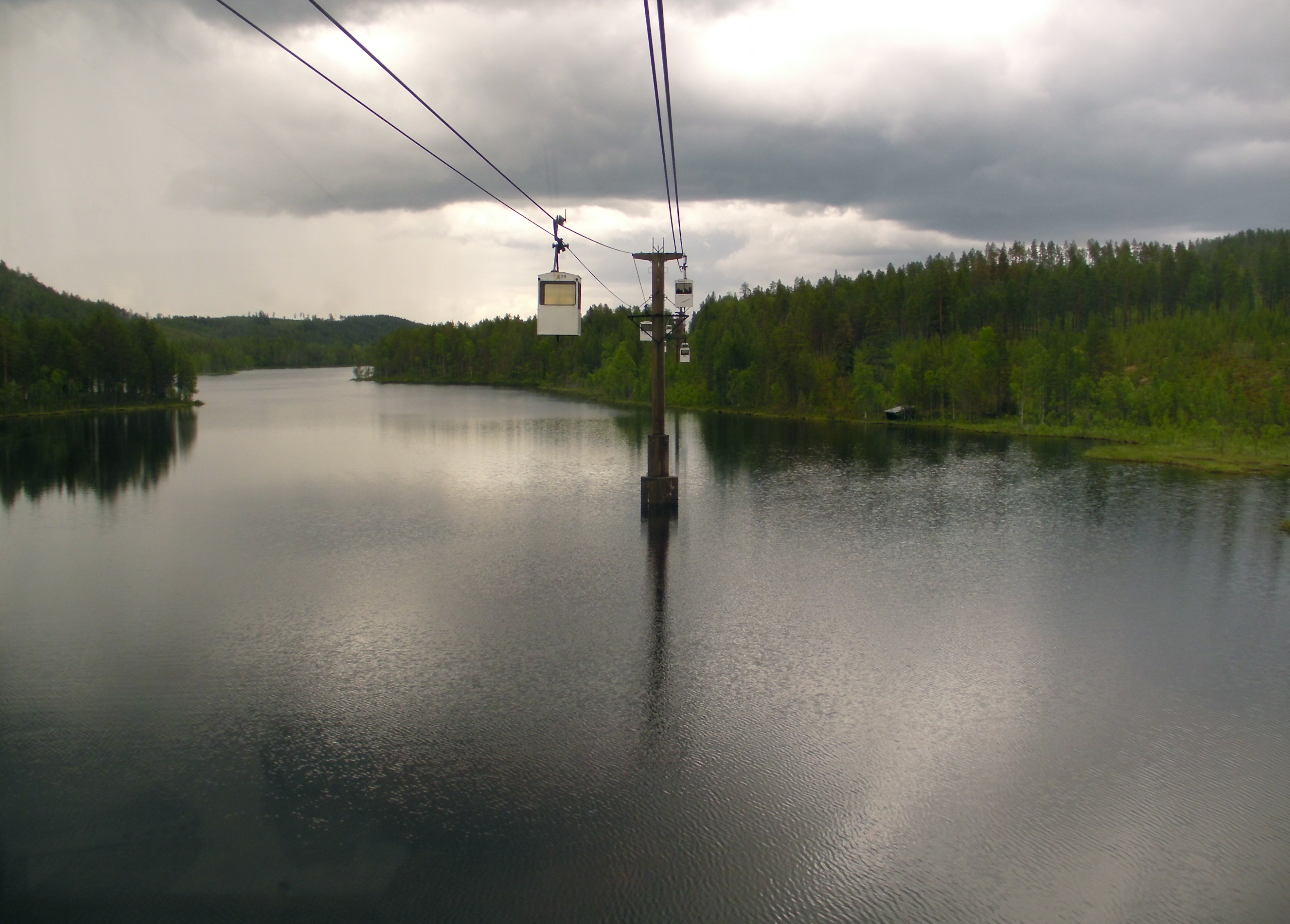 View of the passenger-carrying section of the former Kristineberg-Boliden cableway. Passing over lake Önusträsket.